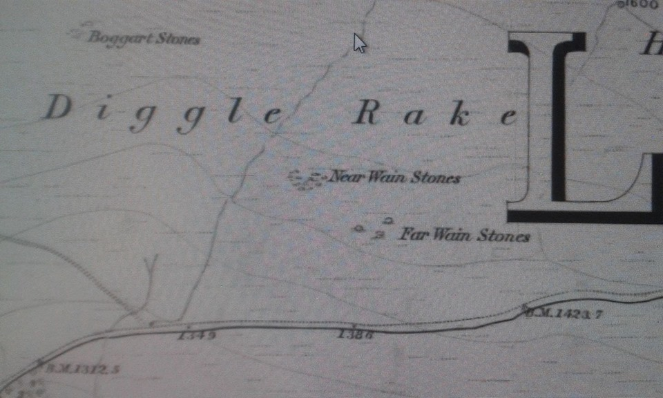 Topographical feature called the 'Boggart Stones' on Saddleworth Moor, Near Oldham, Greater Manchester, UK